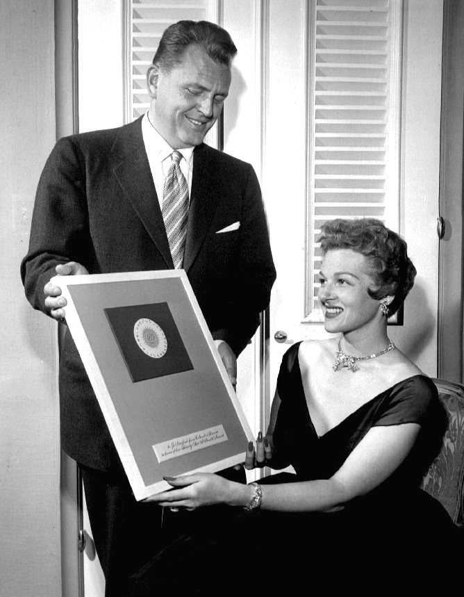 Photo of Jo Stafford, who has sold 25 million records for Columbia, is presented with a diamond-studded plaque to mark that achievement by James Conkling, president of Columbia Records.